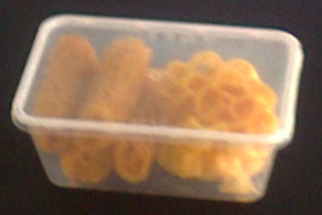 Kuih jala gulung and Kuih goyang in a container.